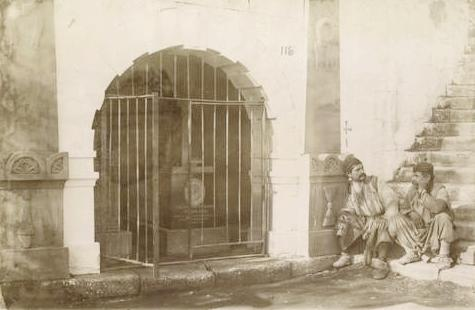 Tbilisi, Grevoedov tomb near Saint David Church and Shop and Persian drugstore.